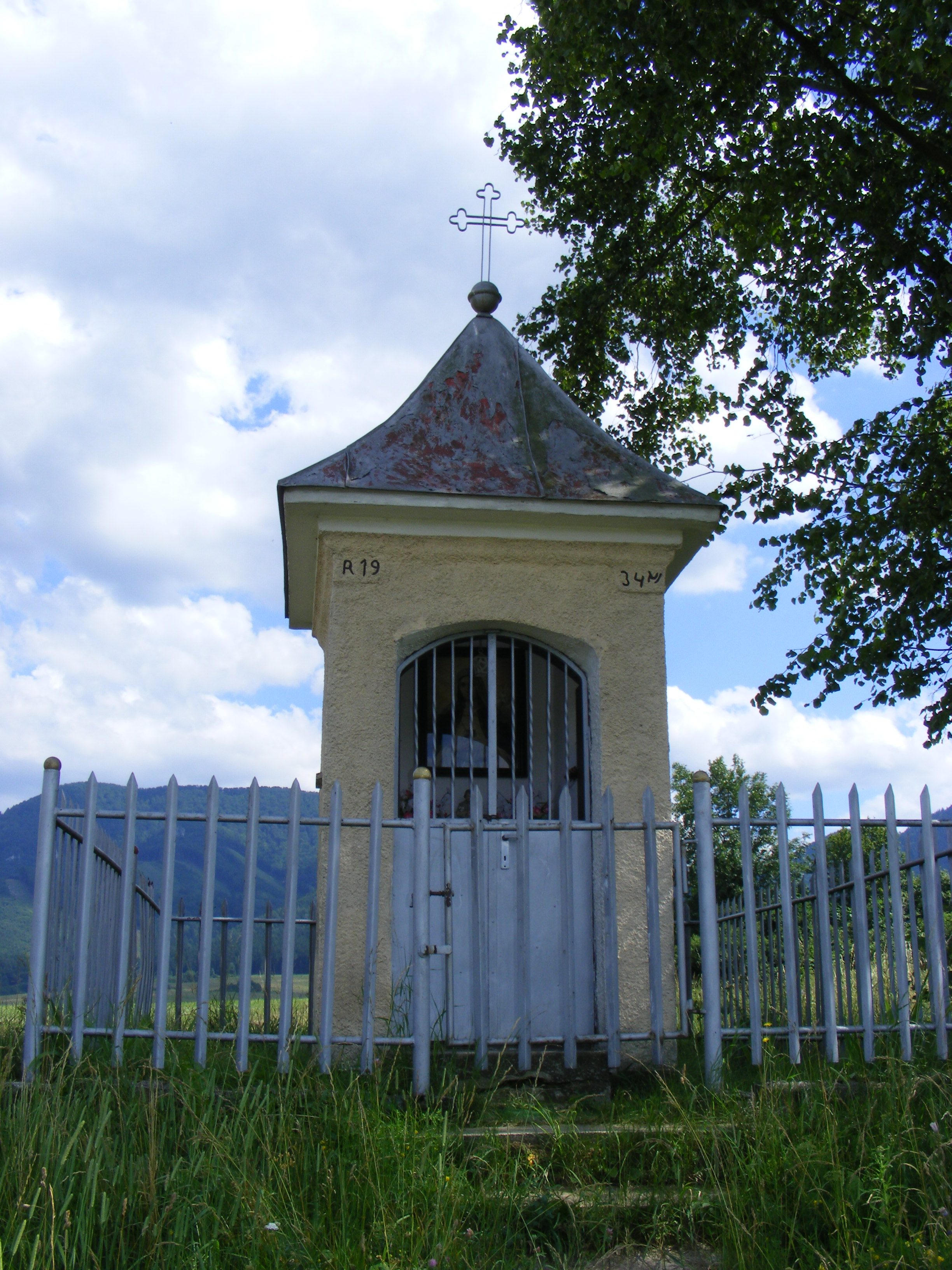 This is a "Kaplnka nad Poluvsím".